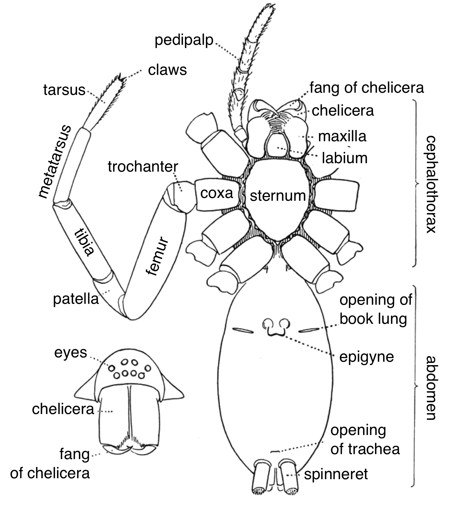 Diagrams of the underside and head of a spider showing the external anatomy; re-labelled from the original